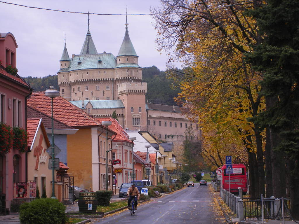 Bojnice - the Hurban square and the castle